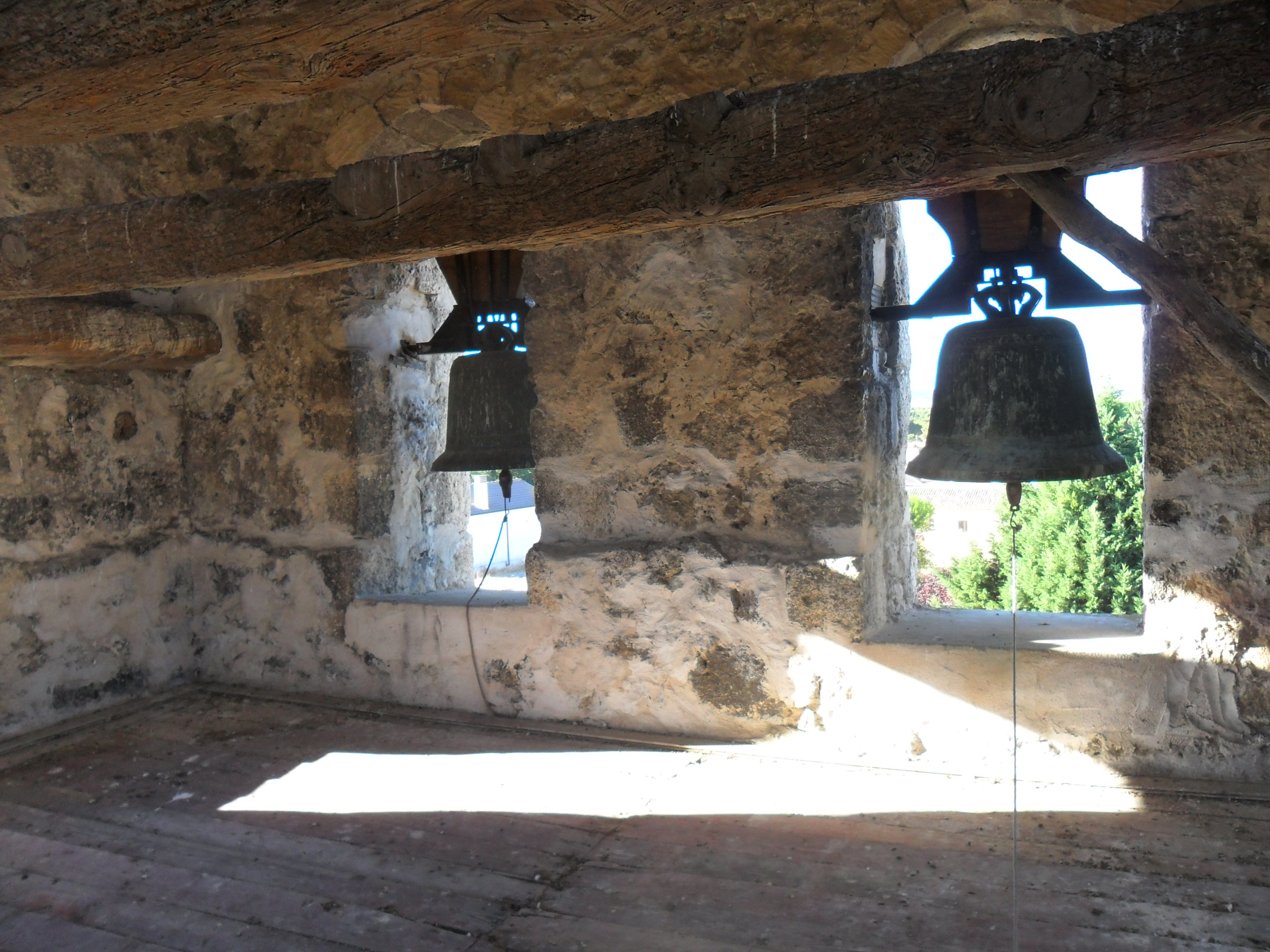 Bell Tower. Santibáñez de Valcorba, Valladolid. Spain